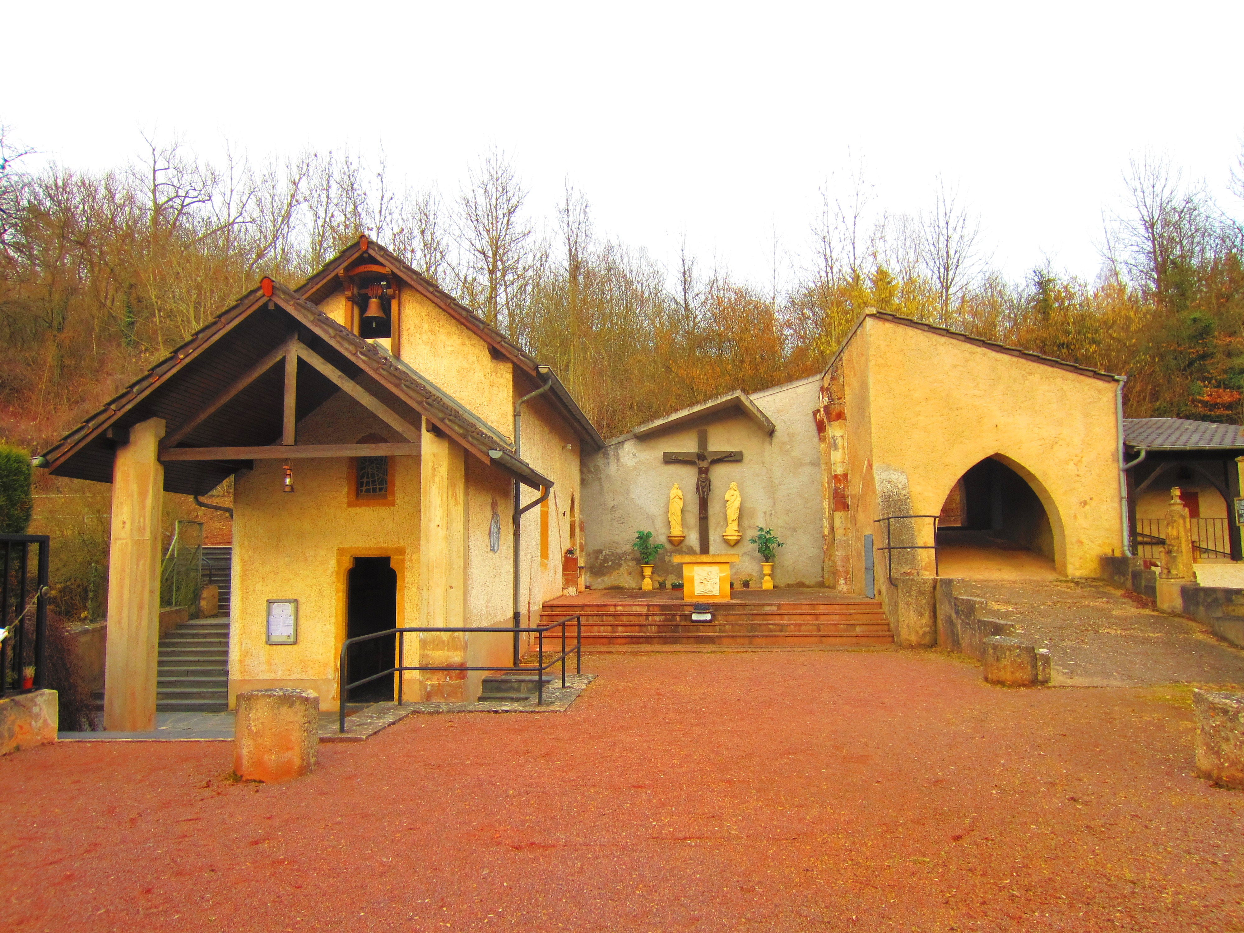 Sierck Bains chapel